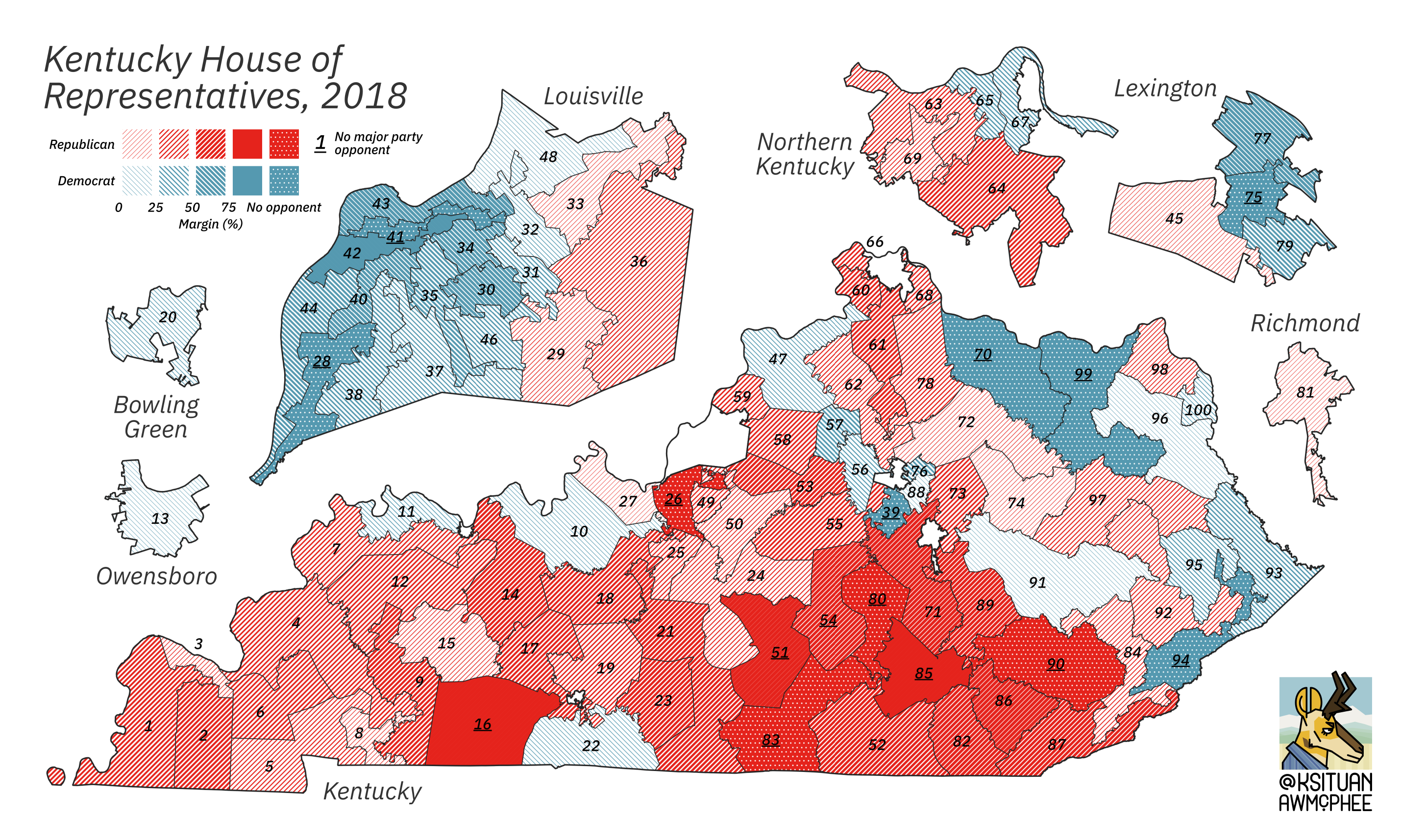 A series of state legislative election maps, created from open data during the summer of 2020. Their common visual style is designed to accomodate all of the unique features of American democracy. They were created using QGIS and Inkscape, two free programs. Please use freely and contact the author with any inquiries about visualizing election data with open-source tools.